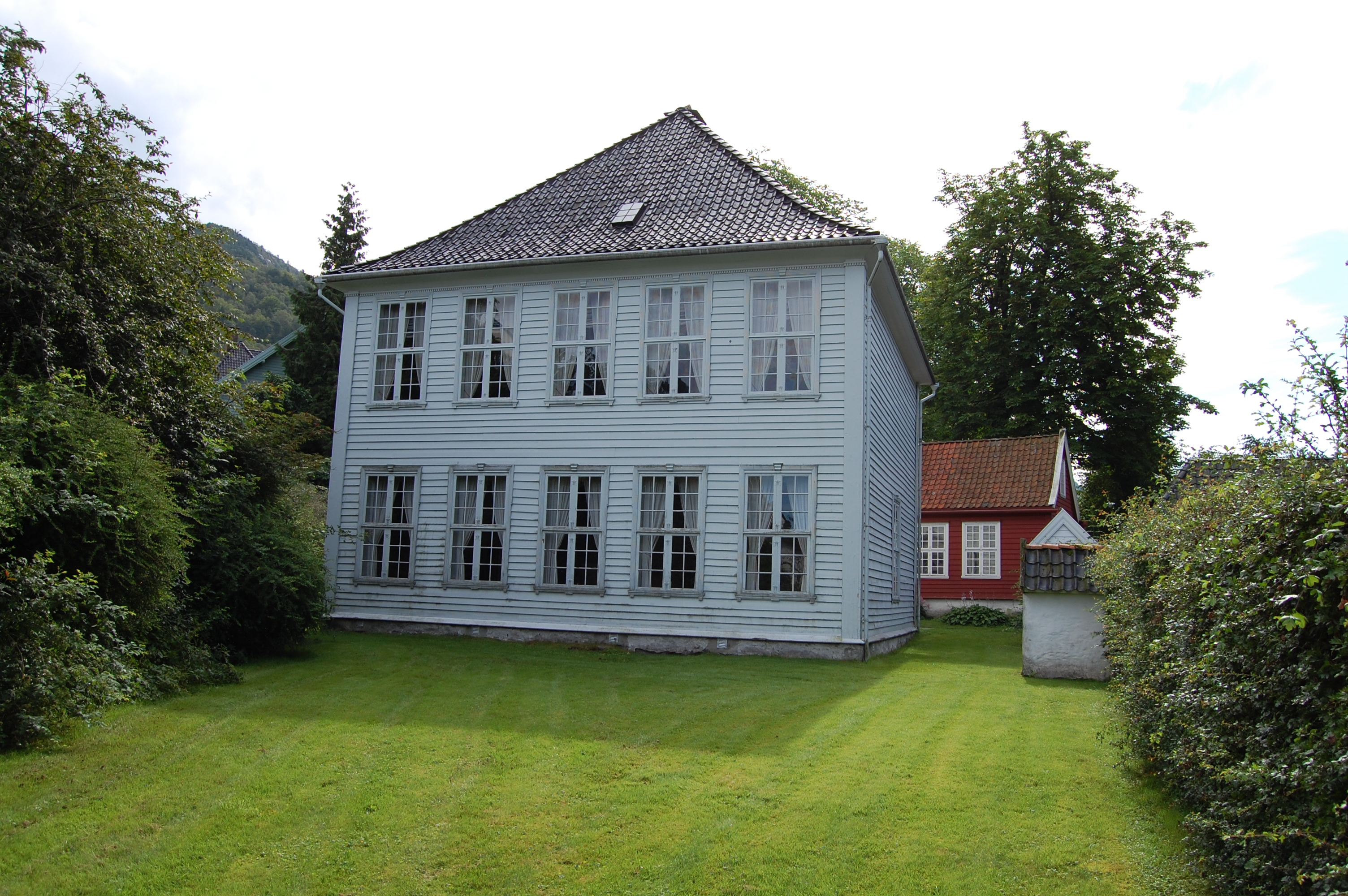 Krohnstedet